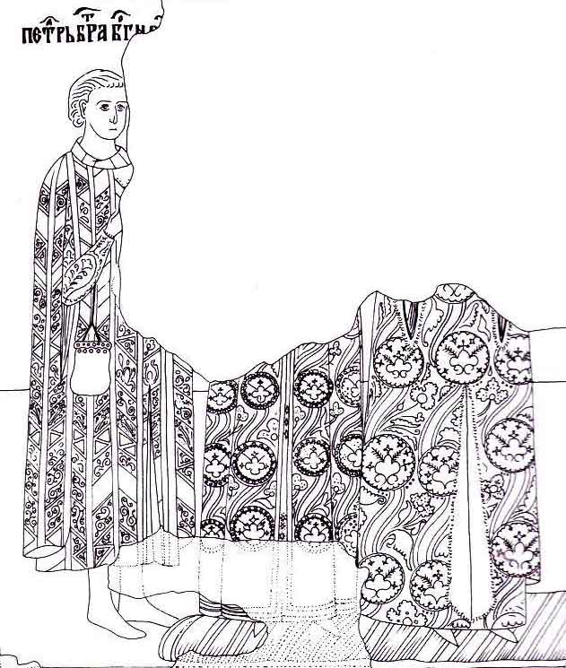 Sketch of the ruined ktitor composition in the Kalenić monastery. It was founded in 1410 by Serbian magnate Bogdan (protovestijar), in the service of Despot Stefan Lazarević. Bogdan's brother is seen to the left, Bogdan in the centre, and Stefan to the right. Painted in ca. 1413.